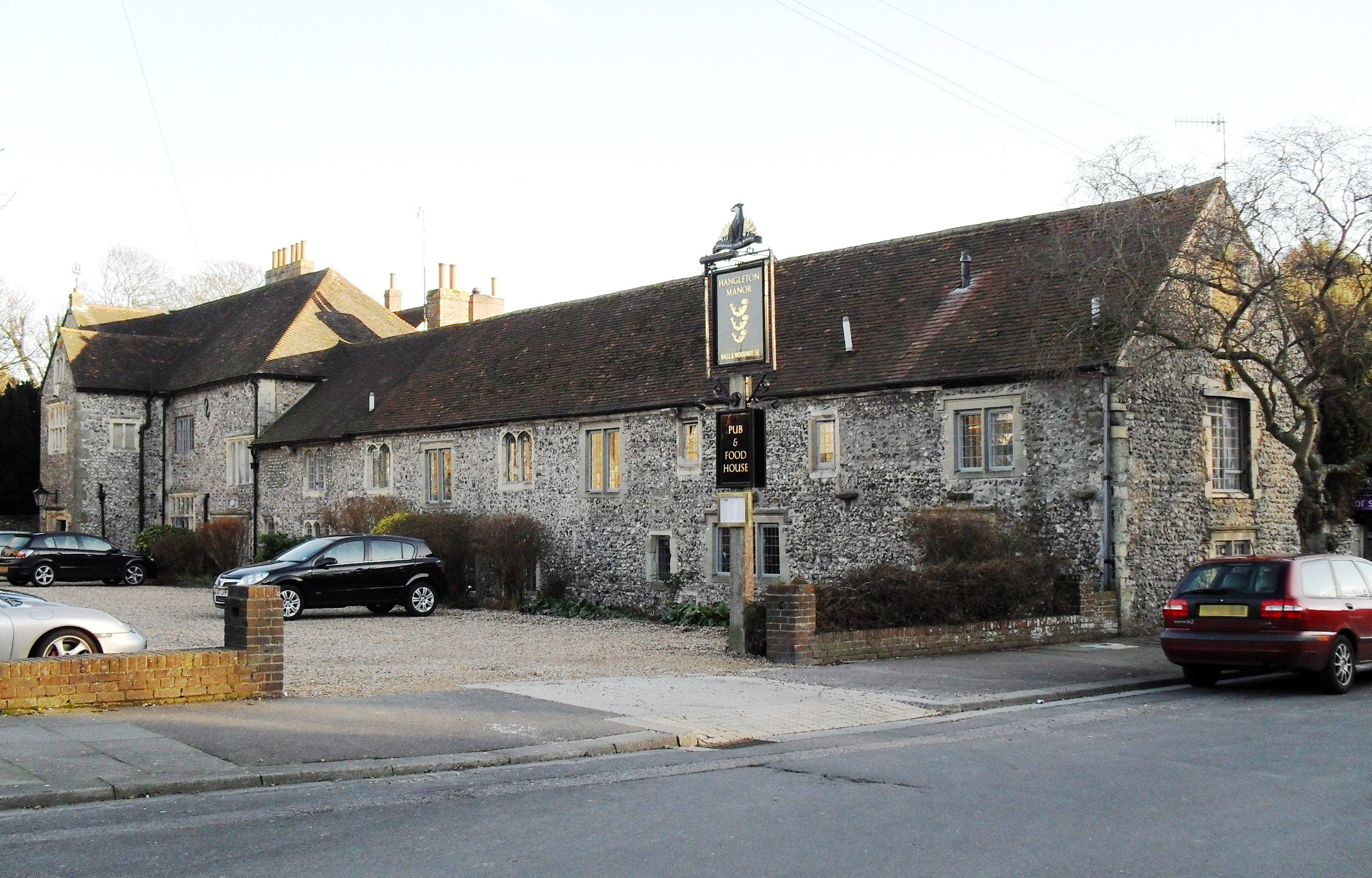 Hangleton Manor Inn, Hangleton Manor Close, Hangleton, City of Brighton and Hove, England. This was built in about 1550 as Hangleton's manor house, was later a farm, and is now a restaurant. It is the oldest secular building in the Hove part of the city. Listed at Grade II* by English Heritage (IoE Code 365538)